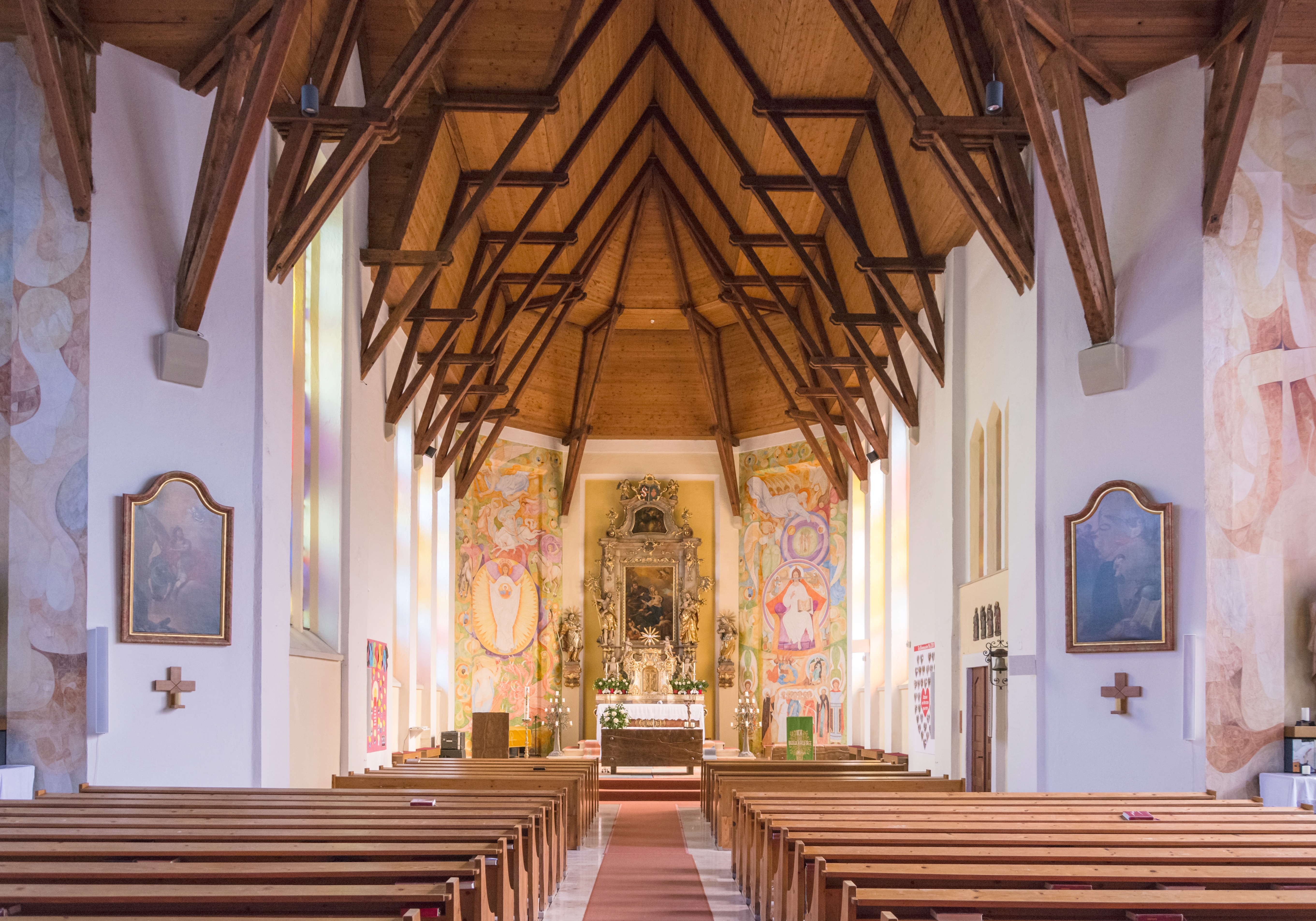 The Catholic parish church St. Joseph in Micheldorf (Upper Austria) is protected as cultural heritage monument.